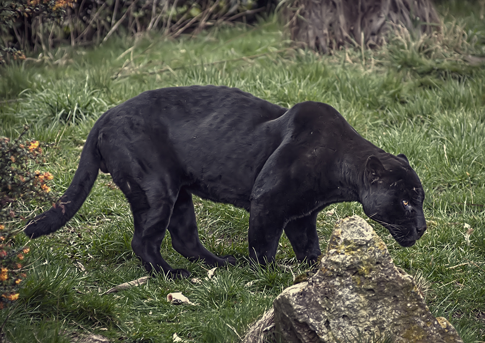 Photographed at Chester Zoo